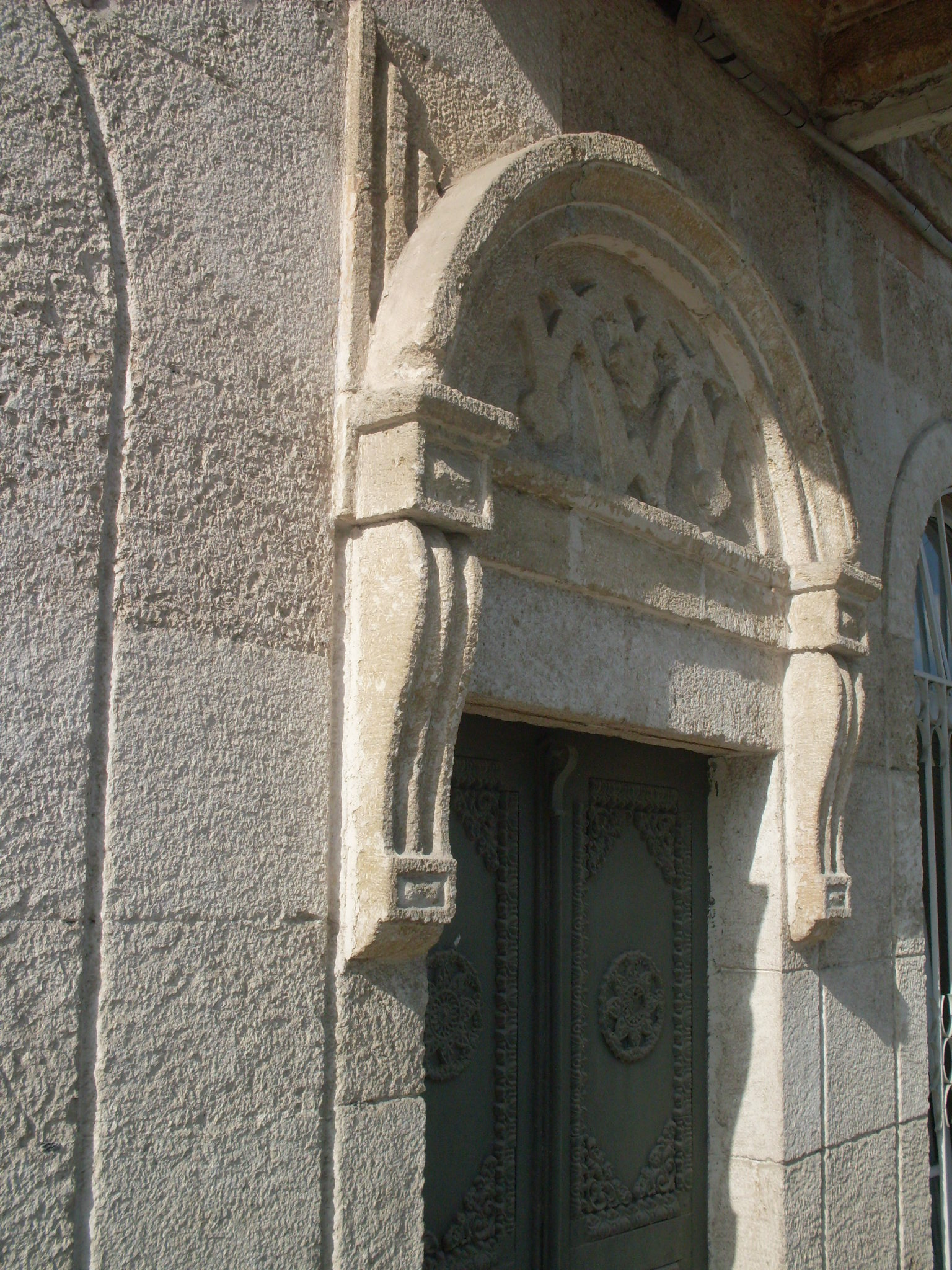 Balchik one of the first Secession style house 1871